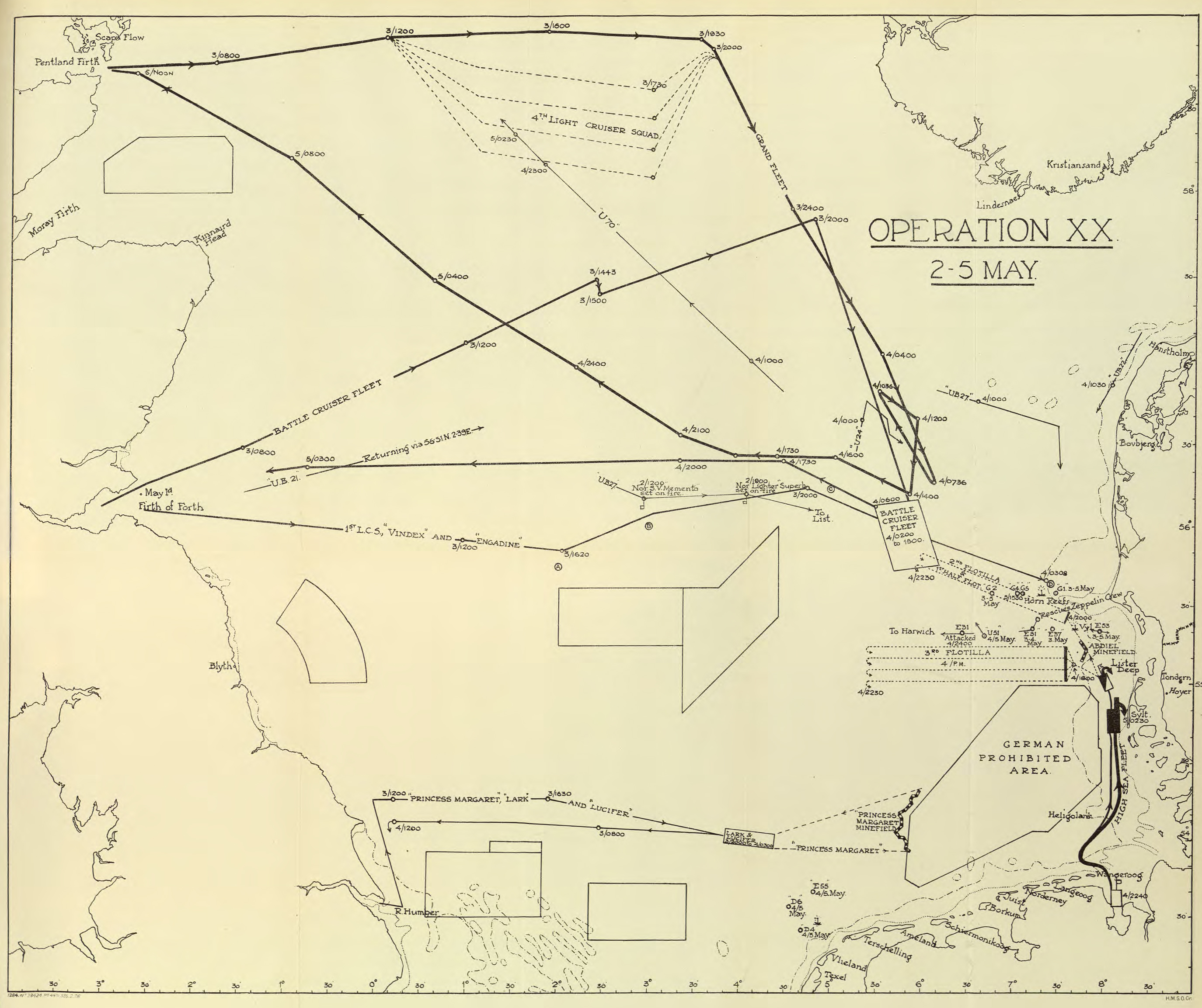 Map of Operation XX, the Royal Navy attack on the German airship base at Tondern on 2–5 May 1916